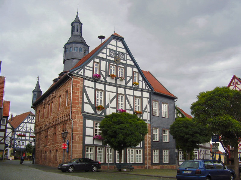 half timber house